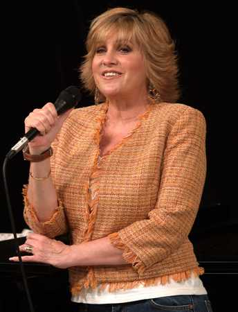 Singer Lorna Luft - daughter of Judy Garland - sister of Liza Manelli